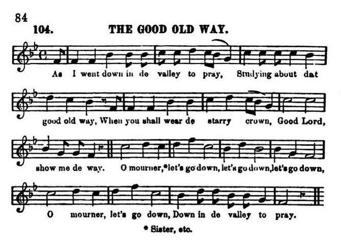 This is a screen shot of the sheet music for "The Good Old Way" from "Slave Songs of the United States", a book originally published in 1867, now in the public domain, and available online at .